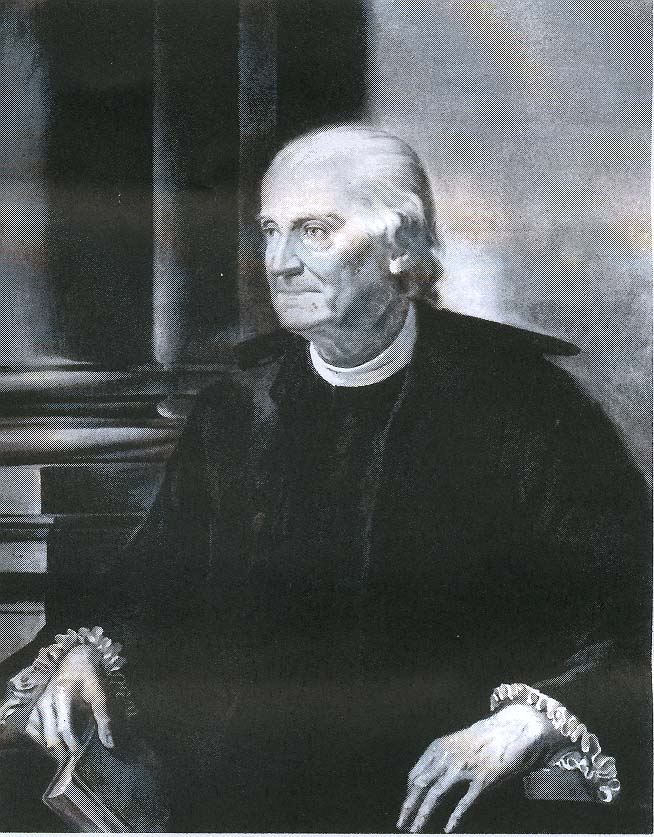 Carlo Denina (1731-1813), Italian historic writer